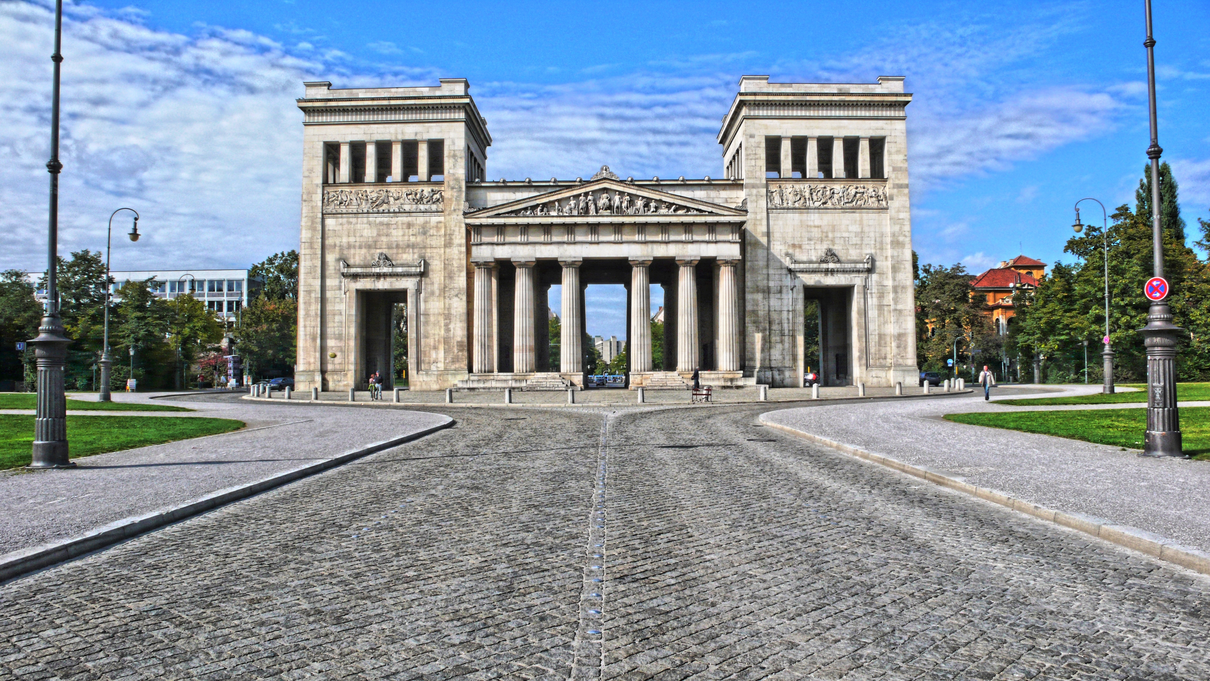 Munich - Propyläen Gate at Königsplatz